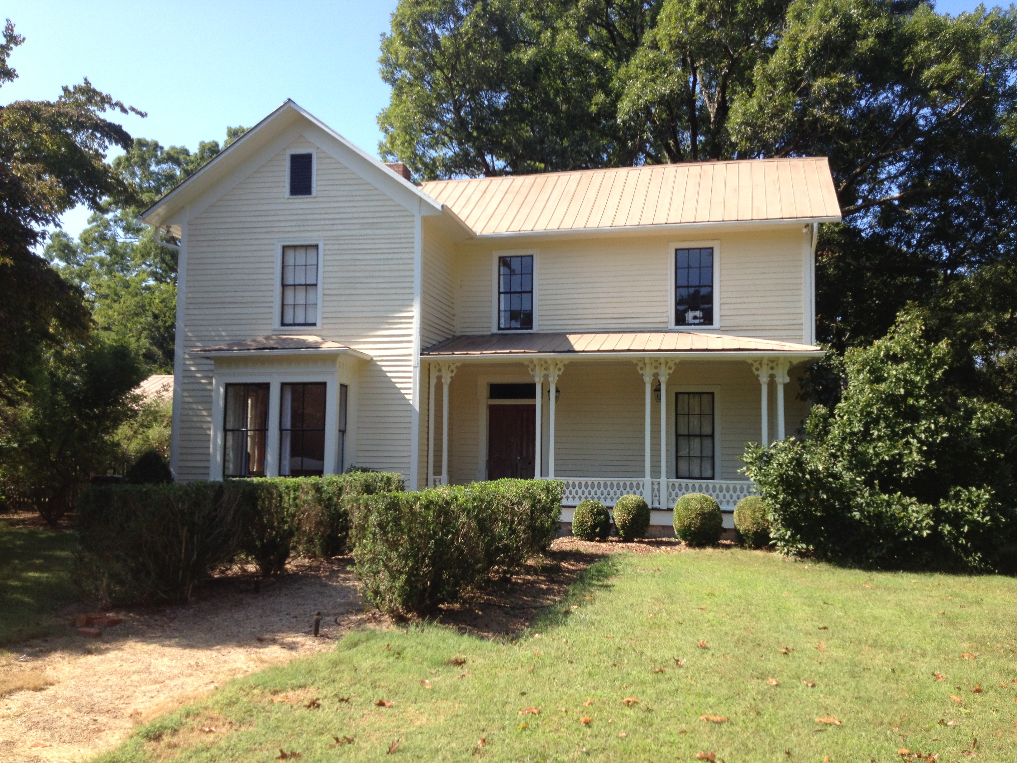 Samuel J. McElroy House, 10915 Beatties Ford Rd. Huntersville